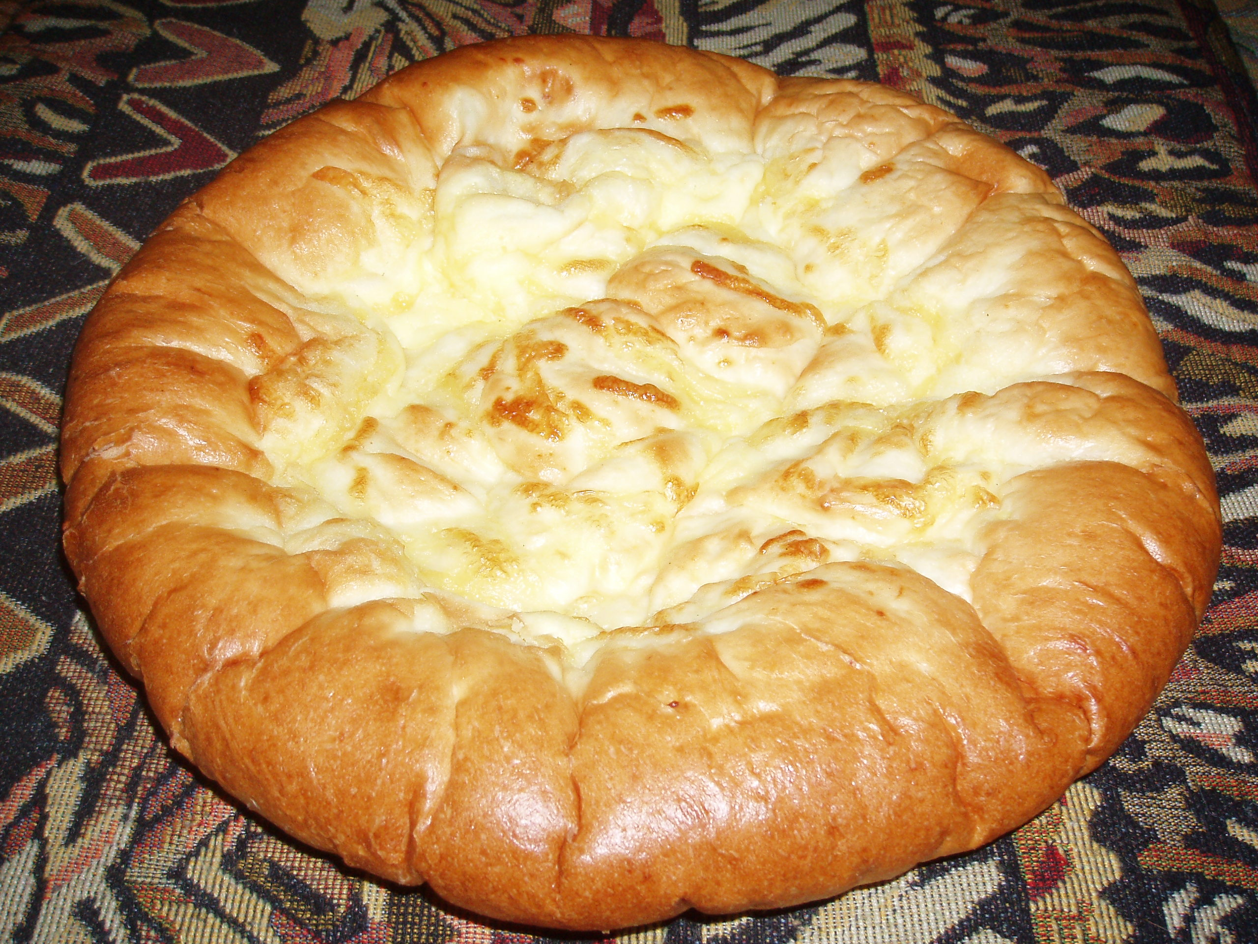 Khachapuri